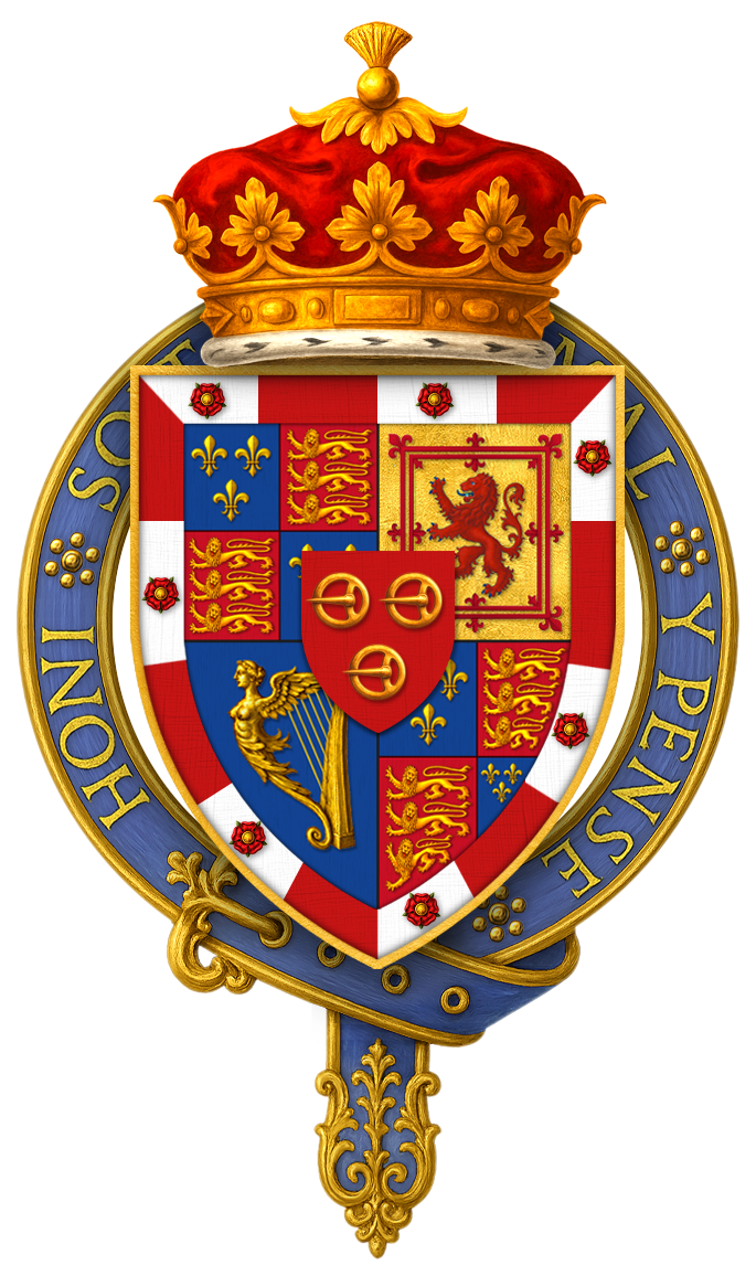 Shield of arms of Charles Lennox, 4th Duke of Richmond, KG, PC